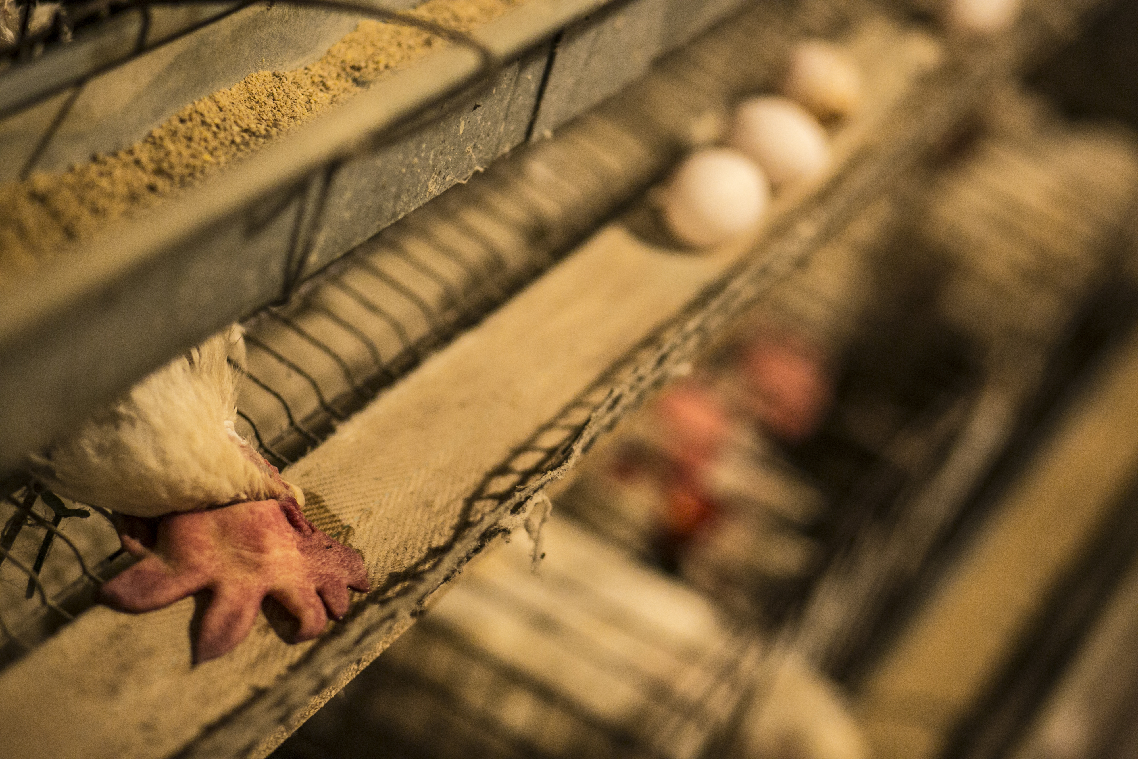 The egg industry 8